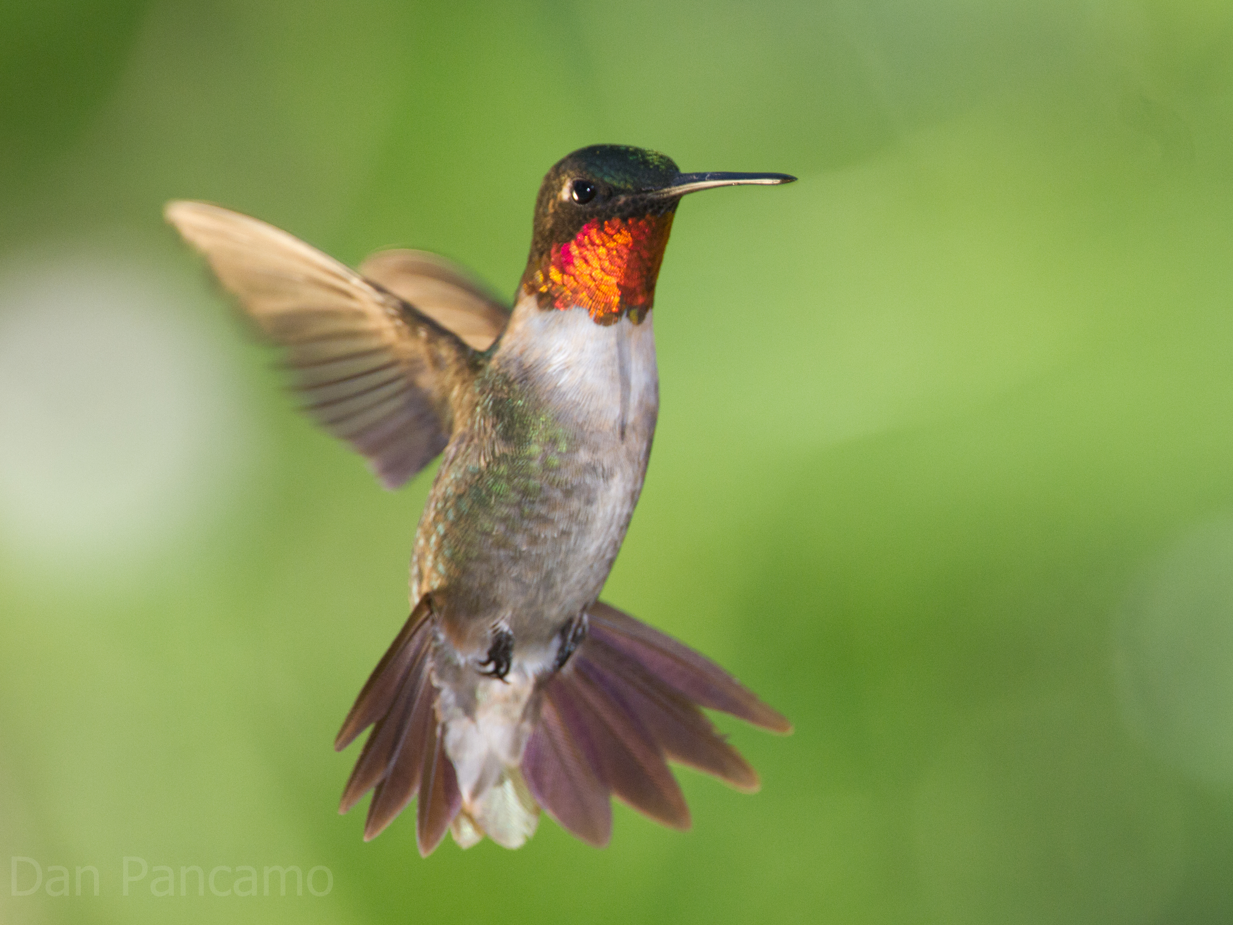 Ruby-throated Hummingbird